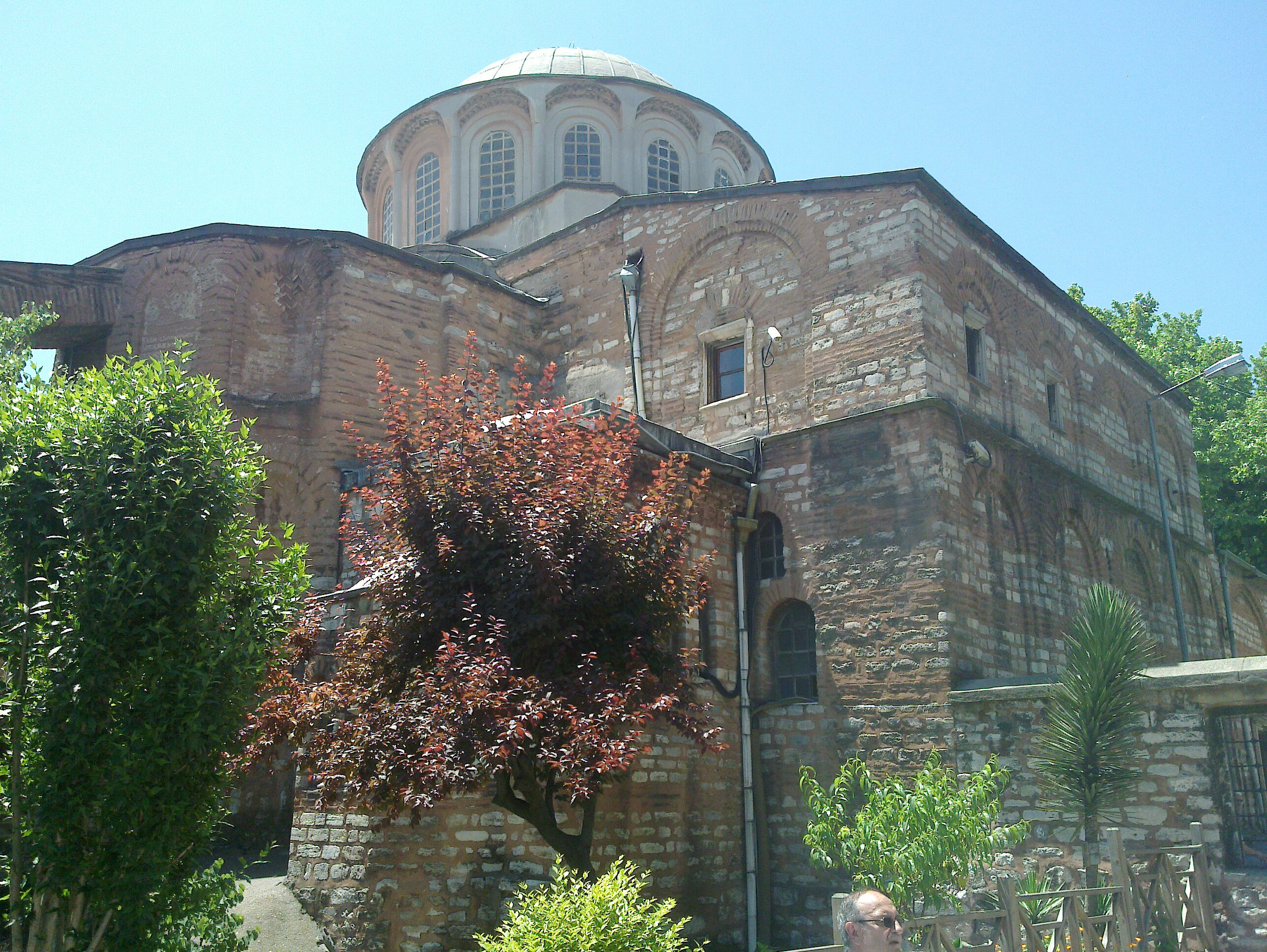 Chora Church